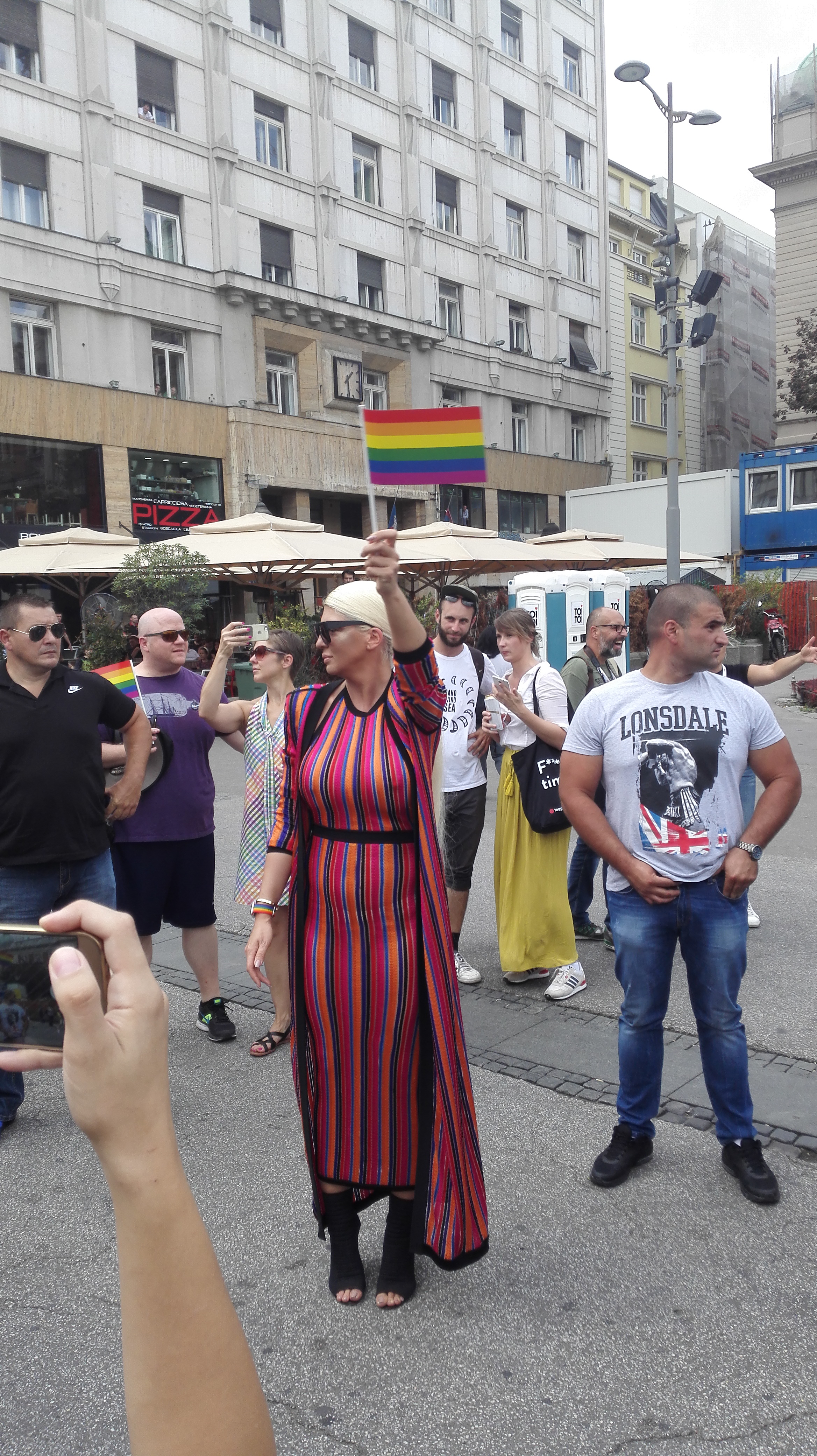 Belgrade Pride Parade 2017, September 17, 2017. Jelena Karleuša waves the rainbow flag Srpski (latinica): Parada Ponosa Beograd, 17. septembar 2017. Jelena Karleuša sa duginom zastavom